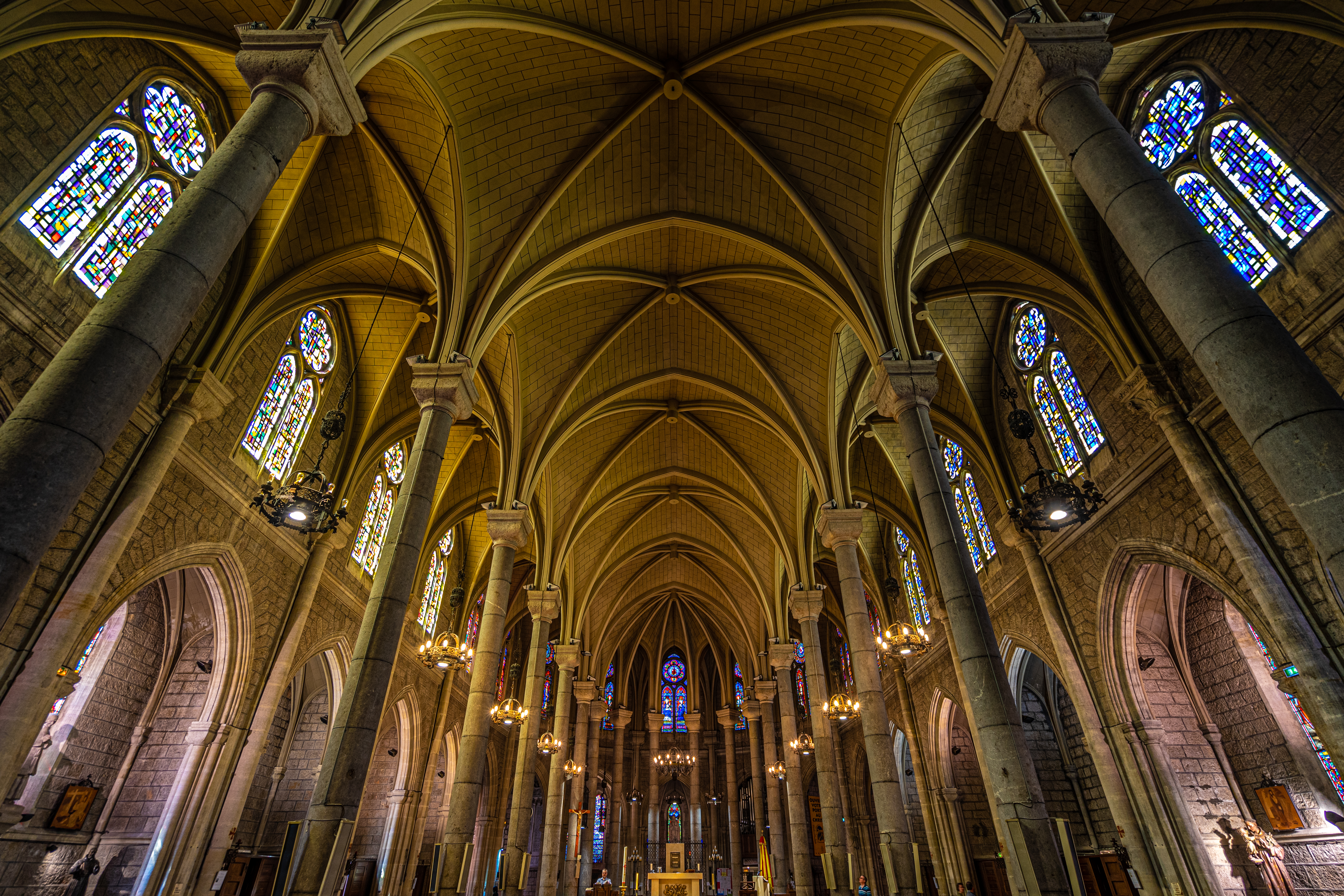 Interior of the Basilique Notre-Dame à Nice, France, on May 14, 2019.